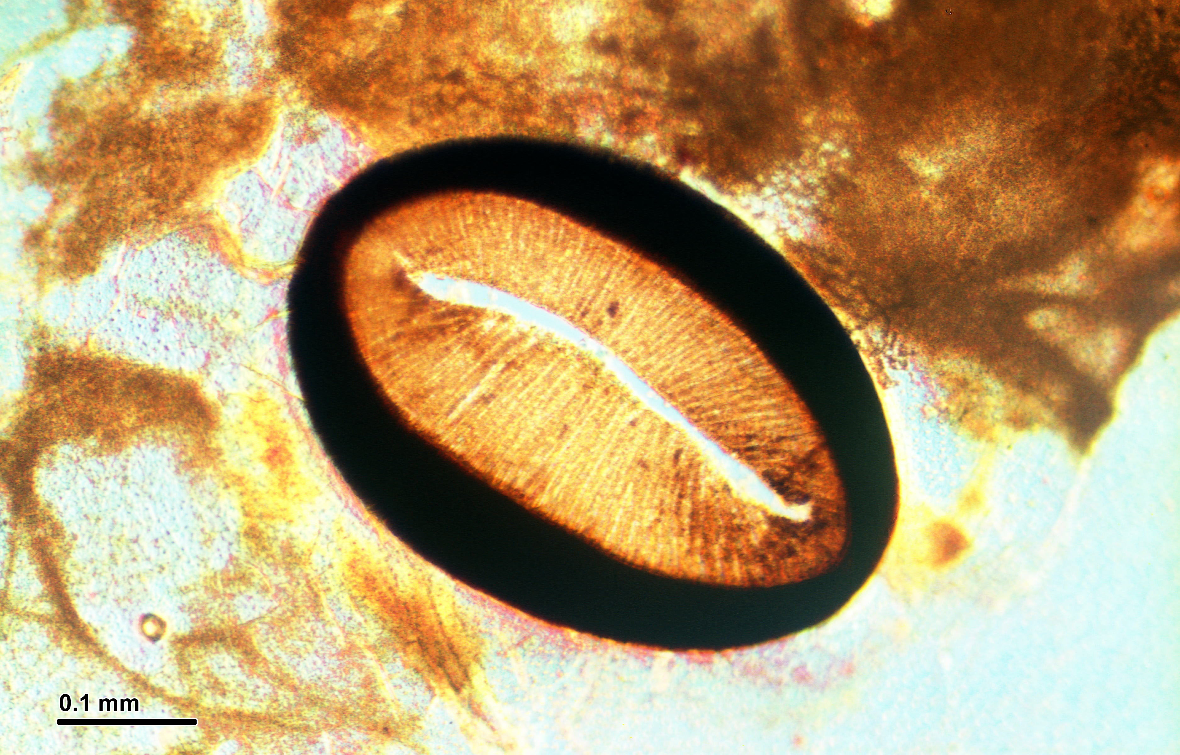 Stigma of arachnid trachea: Stigma of arachnid trachea. Optical microscopy technique: Differential interference contrast (Nomarski). Magnification: 300x (for picture width 26 cm ~ A4 format).